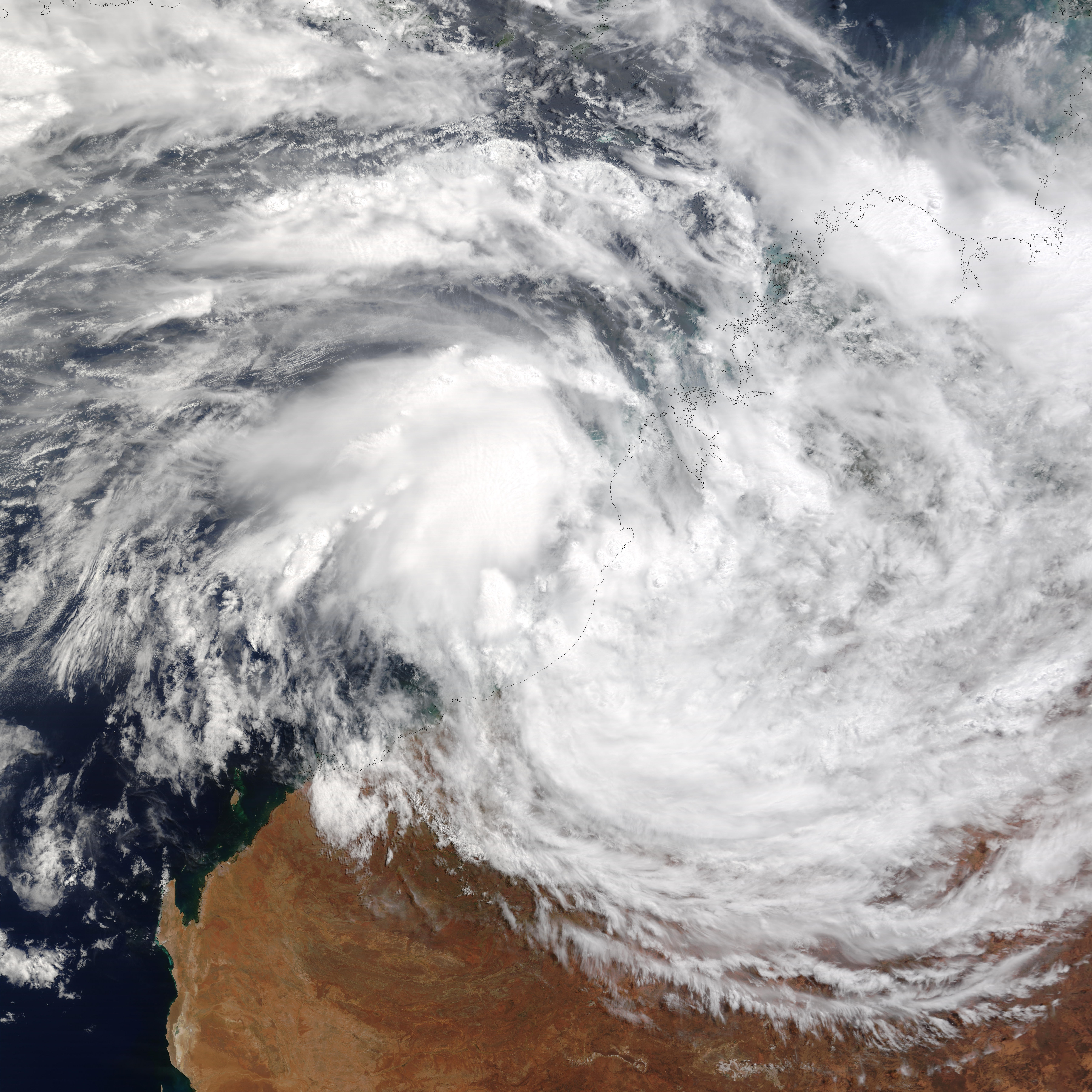 With sustained winds near 64 km per hour (40 mph), Tropical Cyclone Graham (20S) was located approximately 200 miles northeast of Port Hedland, Australia, on Feb. 28, 2003, and was drifting southeastward at 6 km per hour (3 mph). This true-color image of the outer bands of clouds in the storm hitting the coast was acquired on February 28, 2003, by the Moderate Resolution Imaging Spectroradiometer (MODIS) aboard NASA´s Terra satellite.